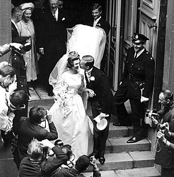 Princess Désirée of Sweden with her husband Niclas Silfverschiöld after the wedding cermony.